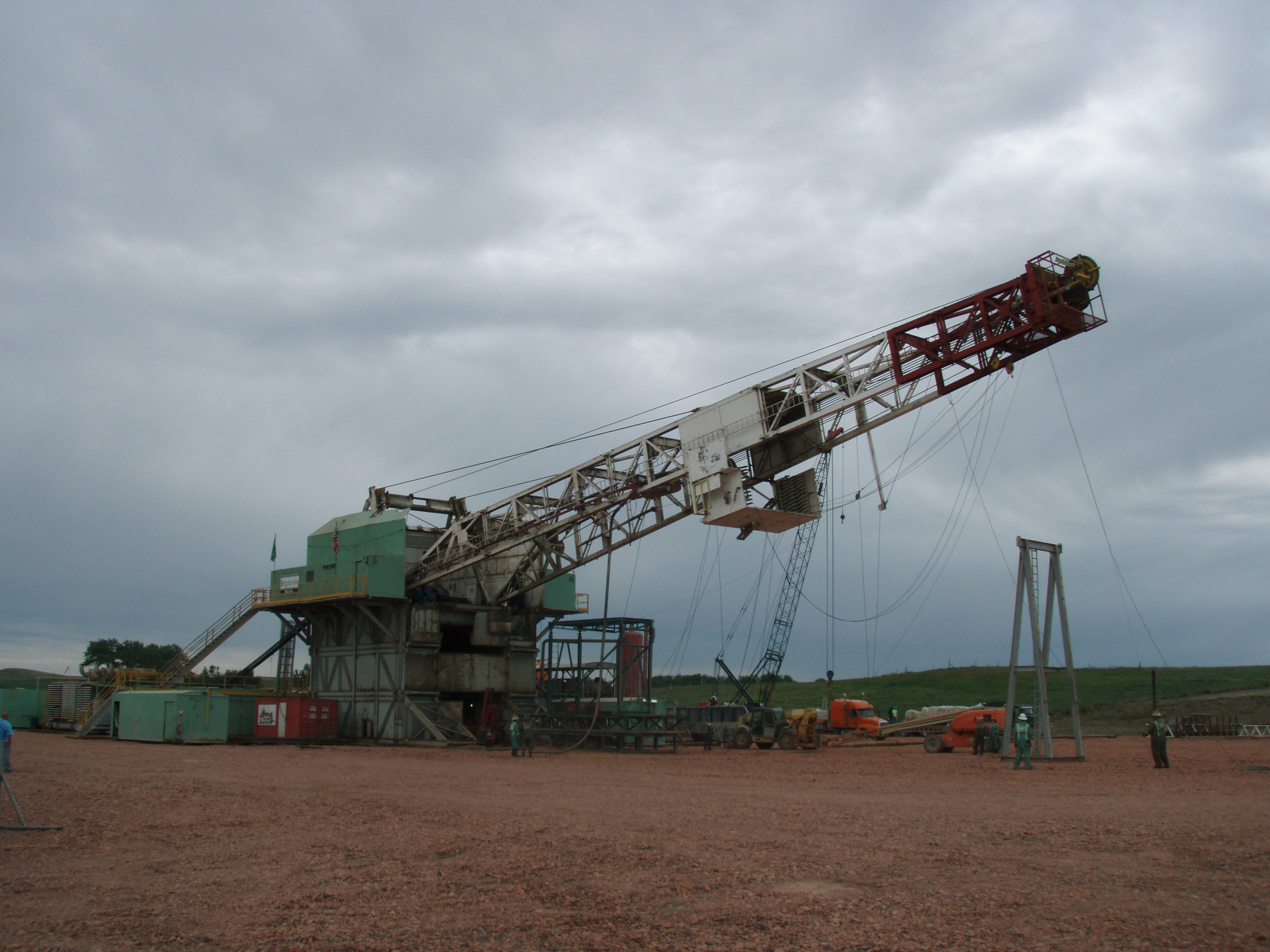 Raising the stern on a Bakken oil Derrick